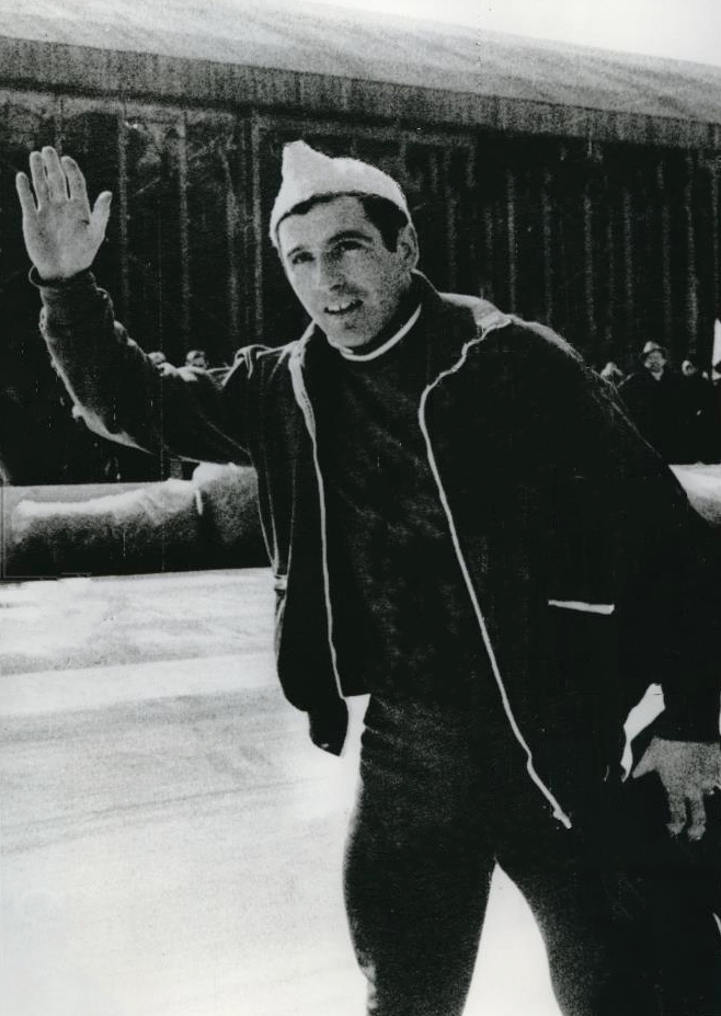 1968 Press Photo Terry McDermott speed skater wins Silver at Grenoble France